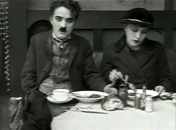 Screenshot from The Immigrant (1917), starring Charlie Chaplin.